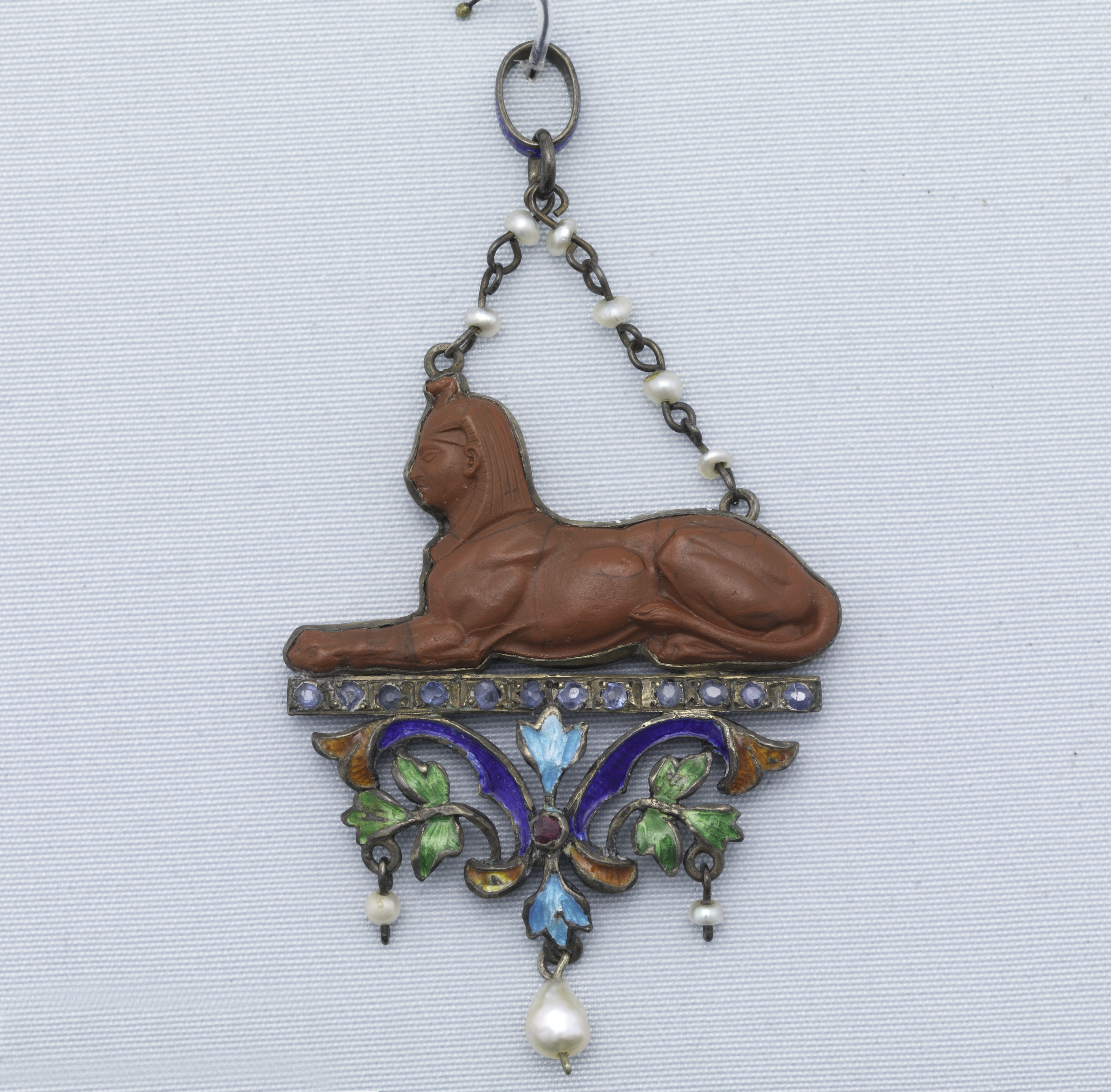 Chain of cross-hatched oval beads with locks and keys as links; jasper pendant in form of a sphynx in profile, set in enameled silver and attached to silver chain beaded with six small pearls; sphynx sits on bar set with twelve blue facetted stones surmounting a floriated scroll enamelled in light and dark blue, green and red. Red stone in center from which hangs a large pearl flanked on either side by two smaller pearls.